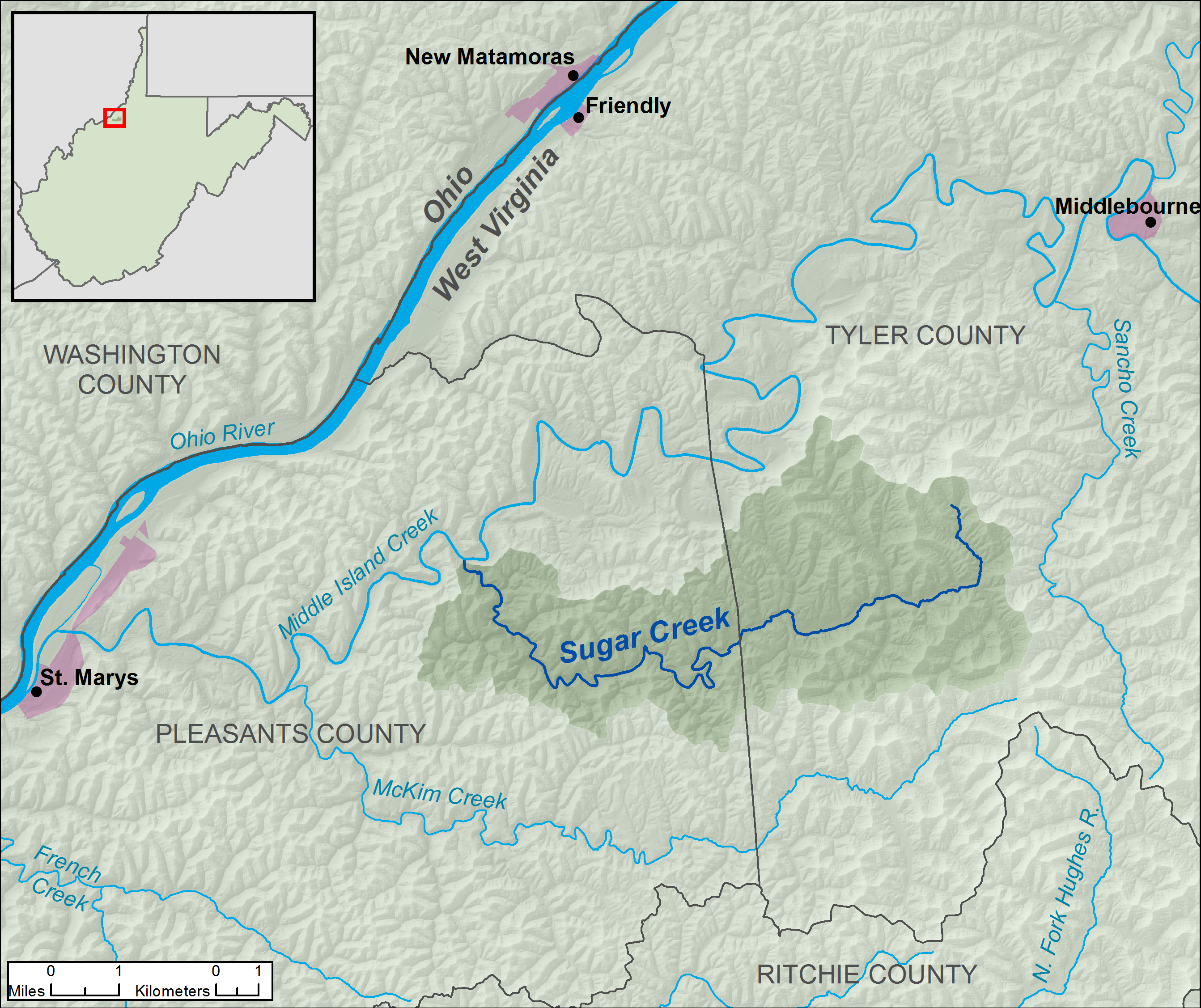 A map of Sugar Creek and its watershed (USGS HUC-12 code 050302010507), in Pleasants and Tyler counties in West Virginia.